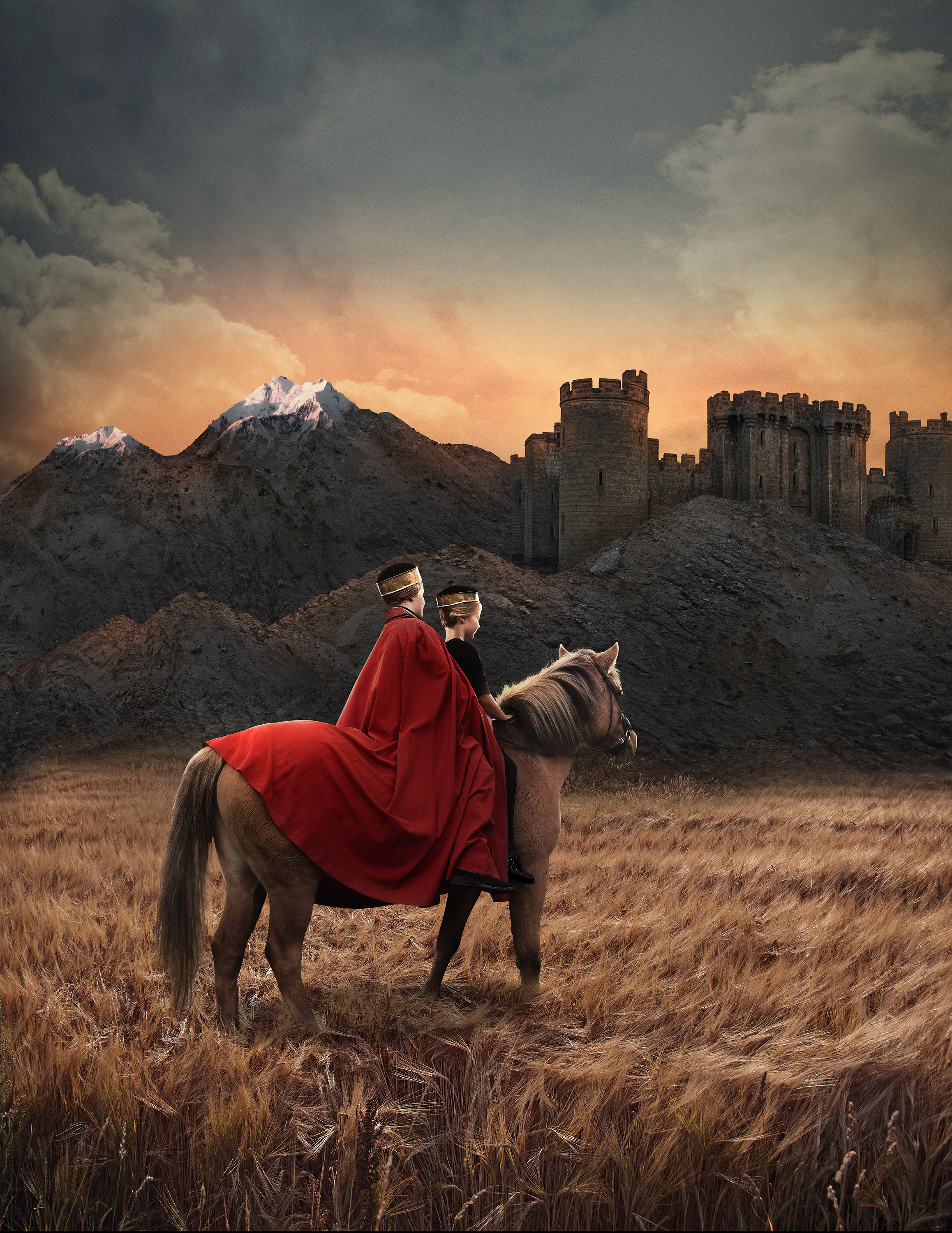 The Copenhagen theater Folketeatret's production of the play "Mio min Mio" based on the novel by Astrid Lindgren.